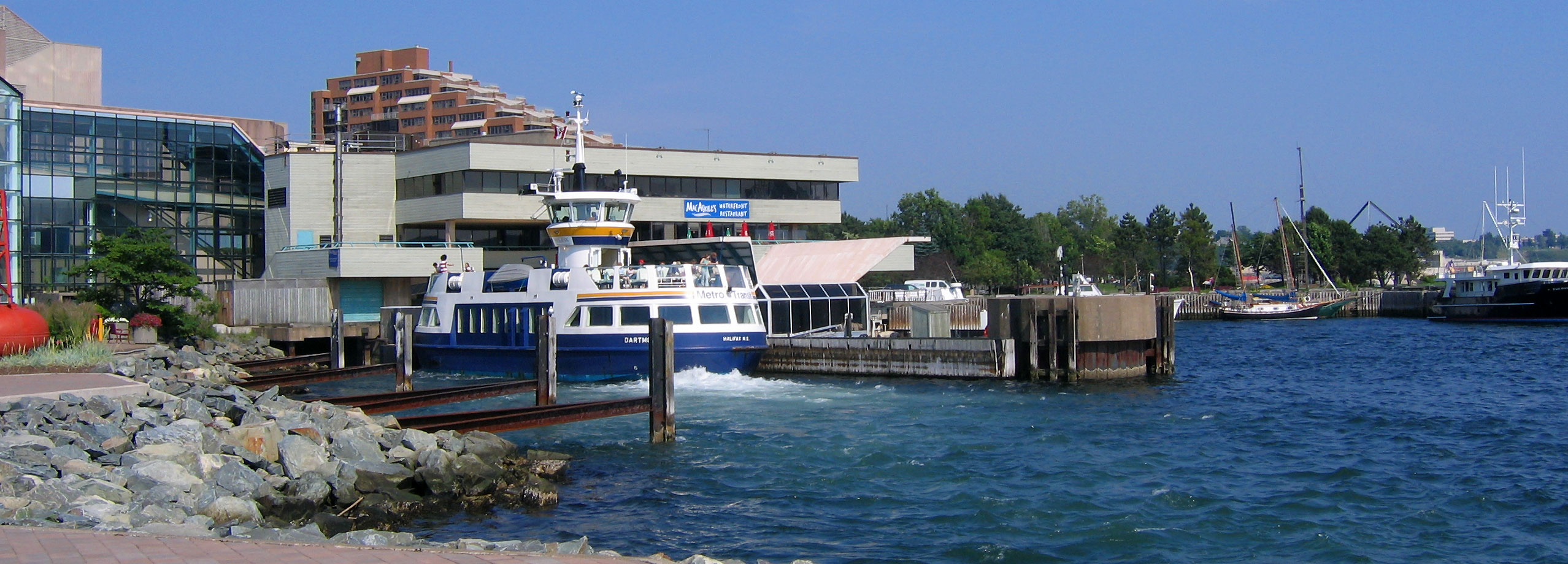 Dartmouth, NS waterfront, showing pier, ferry and boats